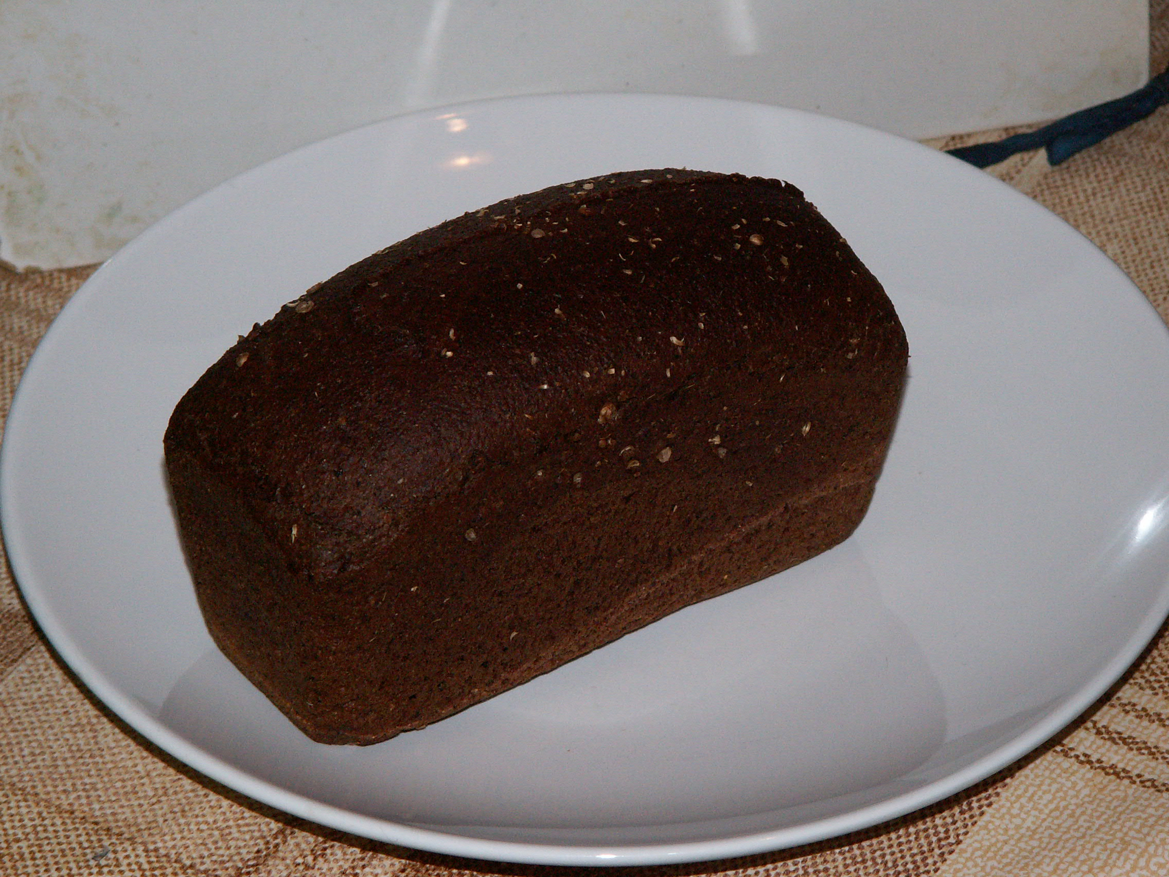 Loaf of Russian rye bread. Буханка черного хлеба.